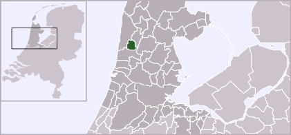 Location of Heiloo